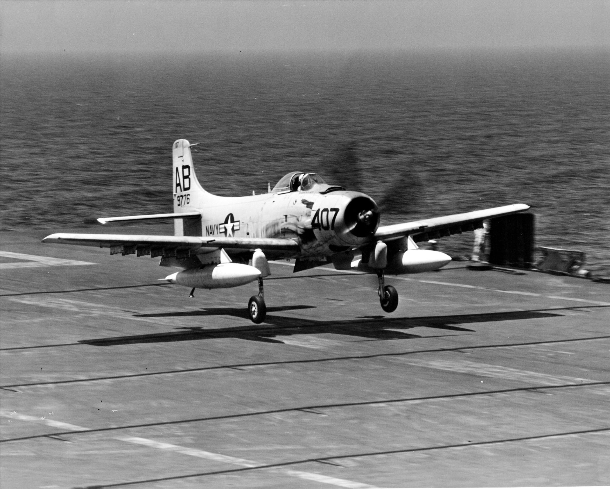 A U.S. Navy Douglas AD-6 Skyraider (BuNo 139776) of Attack Squadron 15 (VA-15) "Valions" landing aboard the aircraft carrier USS Forrestal (CVA-59) in 1957. VA-15 was assigned to Carrier Air Group 1 (CVG-1) aboard the Forrestal for NATO "Operation Strikeback" in the North Atlantic from 16 August to 22 October 1957.